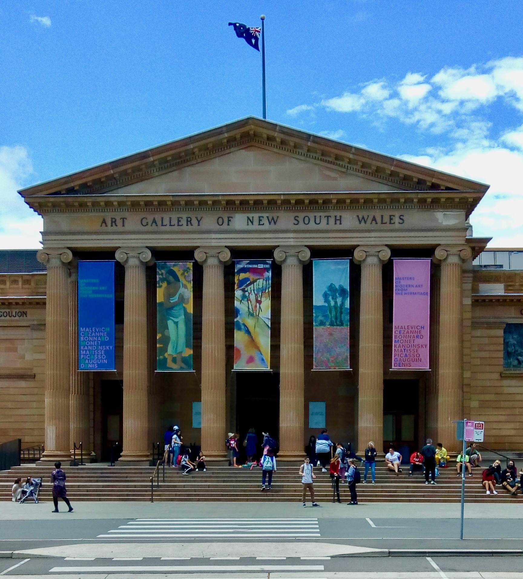 The Art Gallery of New South Wales entrance with Hermitage exhibition banners.jpg